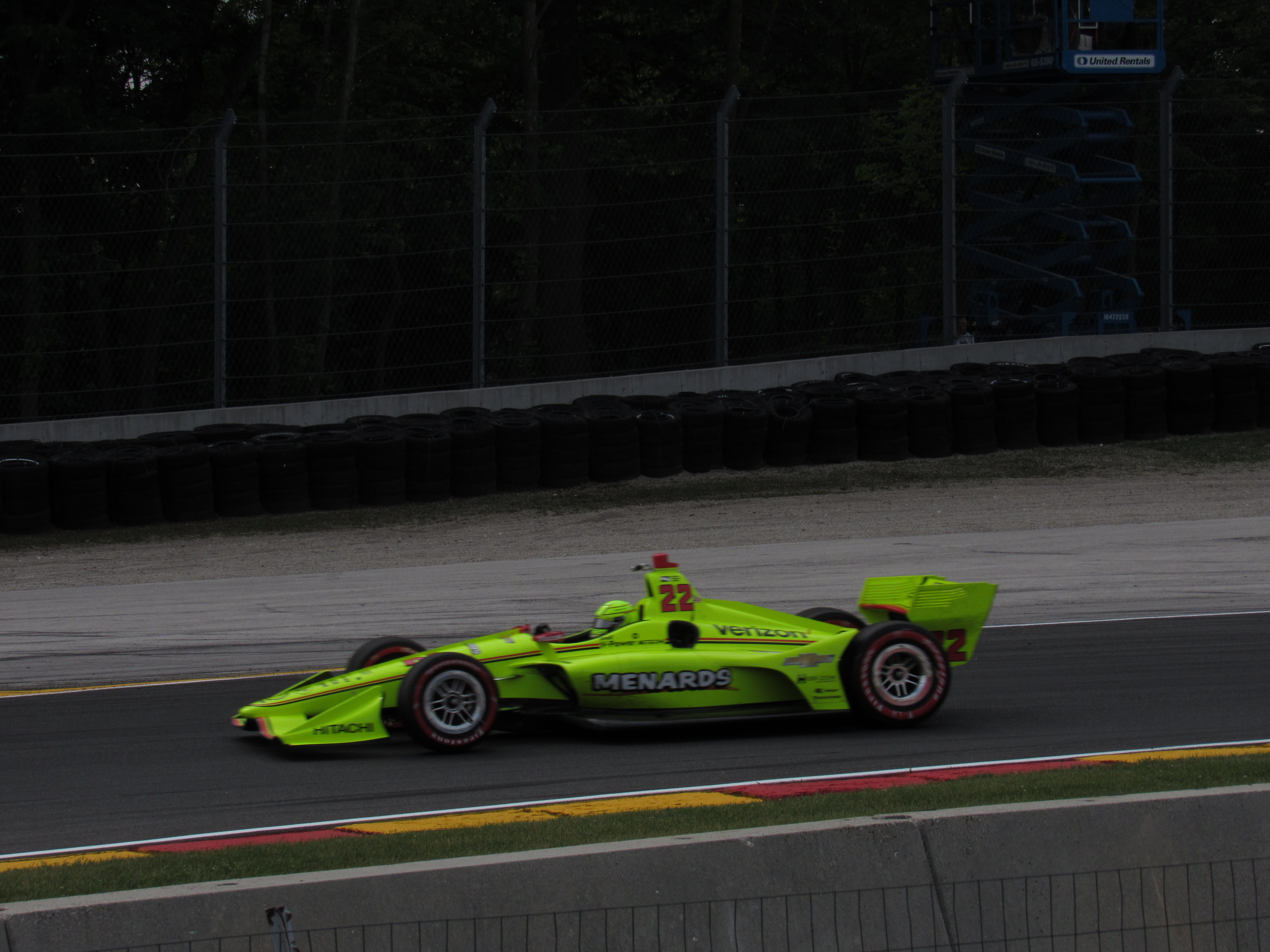 Simon Pagenaud takes practice laps in his Team Penske car in preparation for the Kohler Grand Prix in 2018.